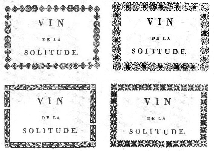 Labels of Châteauneuf-du-Pape, XVIIIe